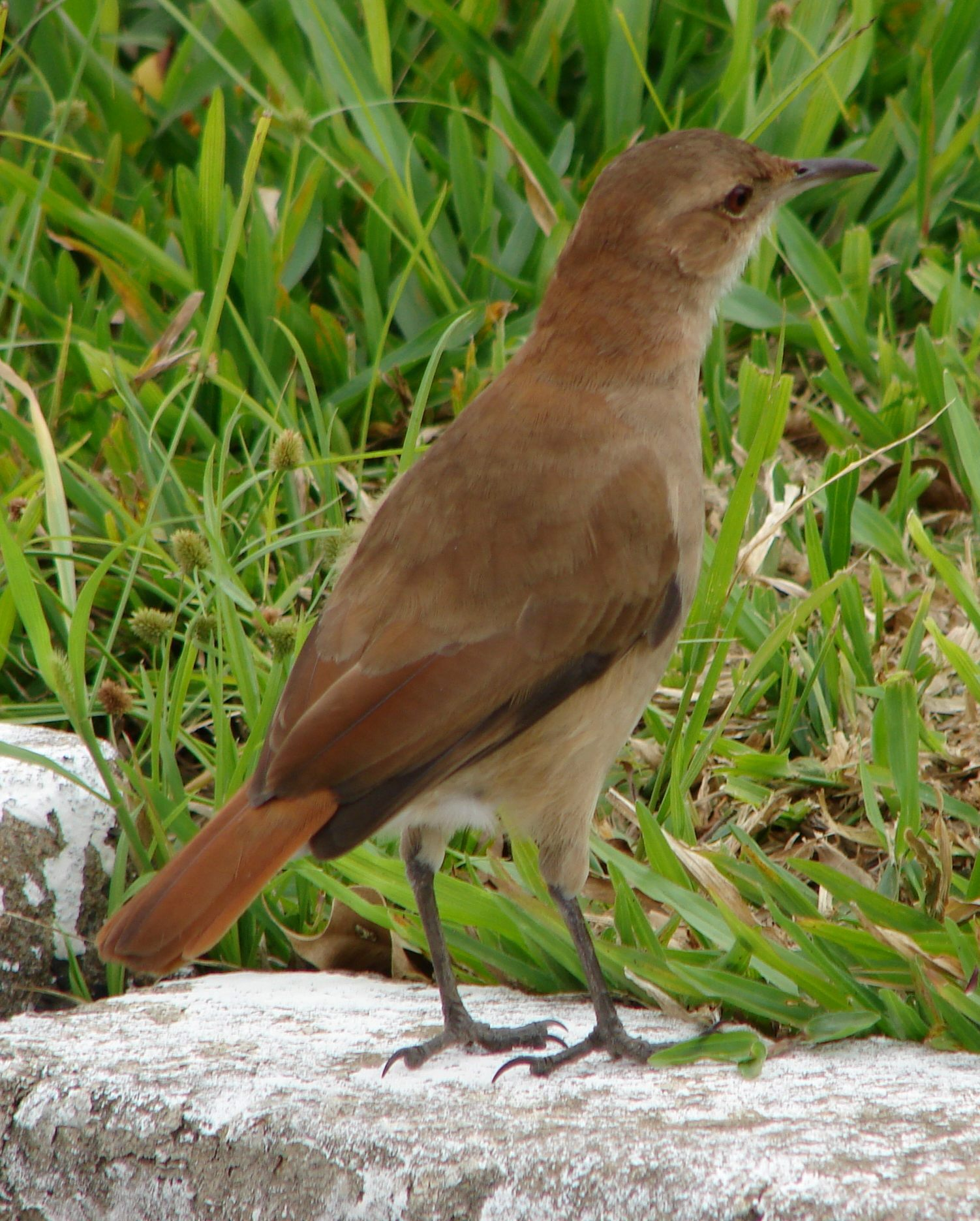 Rufous Hornero (Furnarius rufus) eating on the ground. Porto Alegre, Brazil